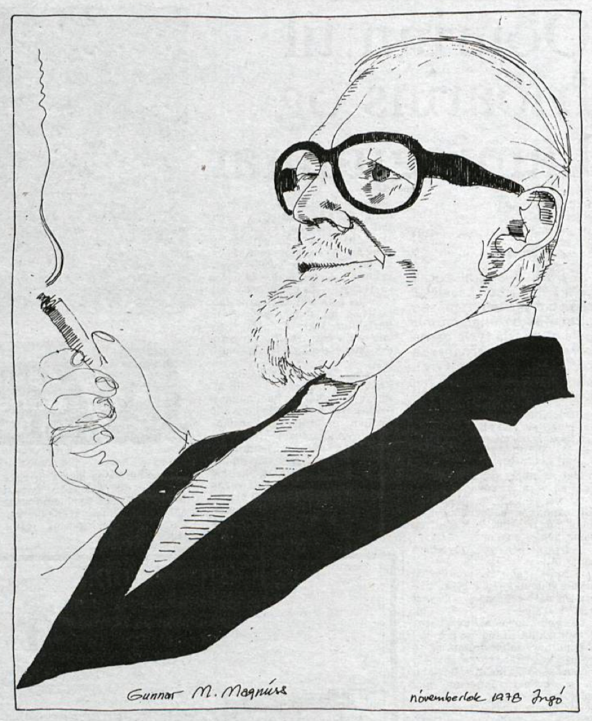 Gunnar M Magnúss writer, journalist, teacher